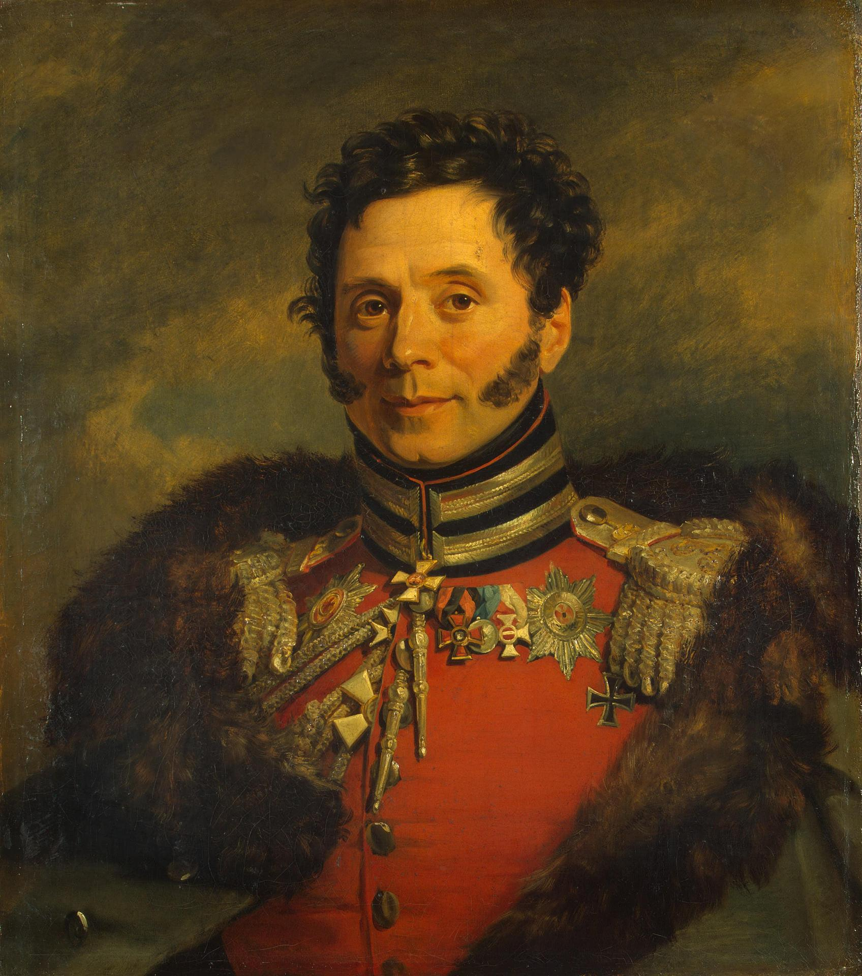 Nikolay Ivanovich Depreradovich (1767 — 1843) russian general of the cavalry and adjutant general.